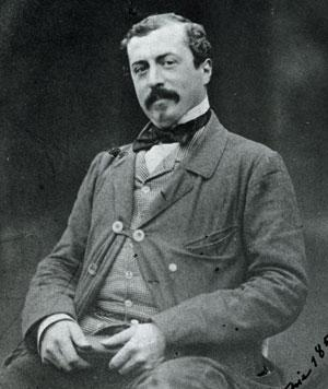 Photograph of Sir Richard Wallace (1818-1890) (Sir Richard Wallace, 1st Baronet)